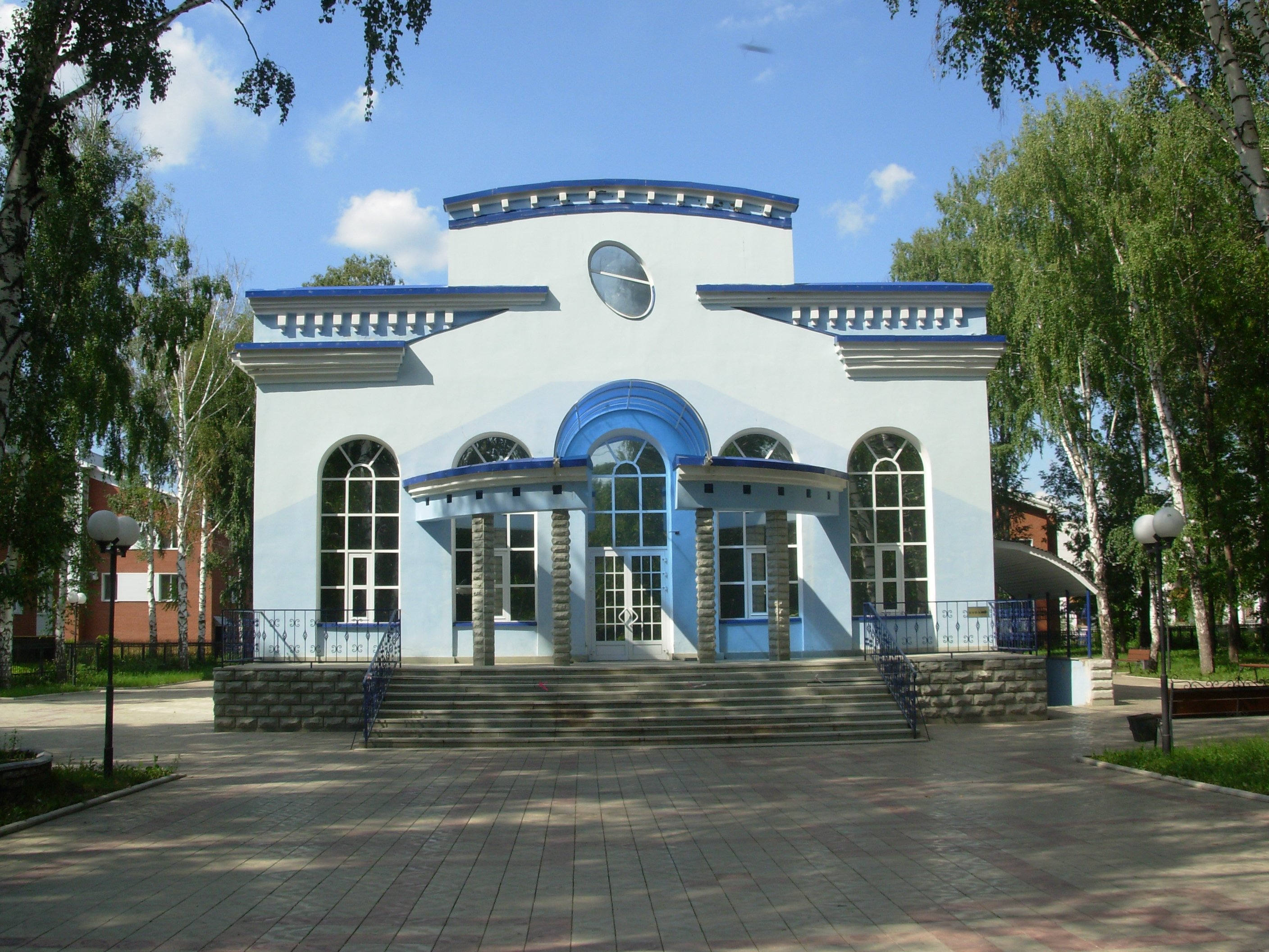 street